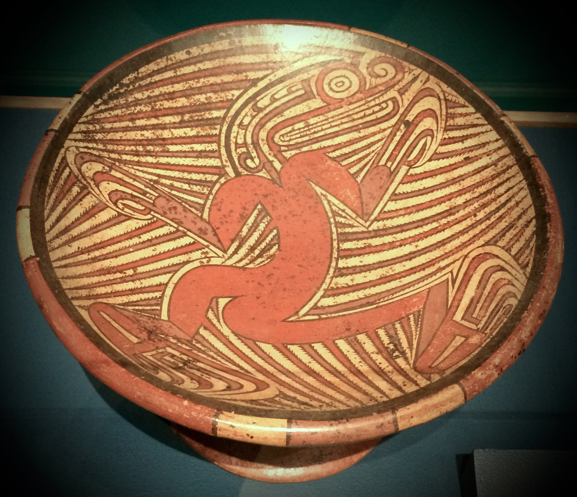 Pedestal plate with transformation figure and multitude of stingray spines. Gran Cocle, Macaracas style, 800-1000 AD. Special (temporary) exhibit of Cocle pottery at LACMA.